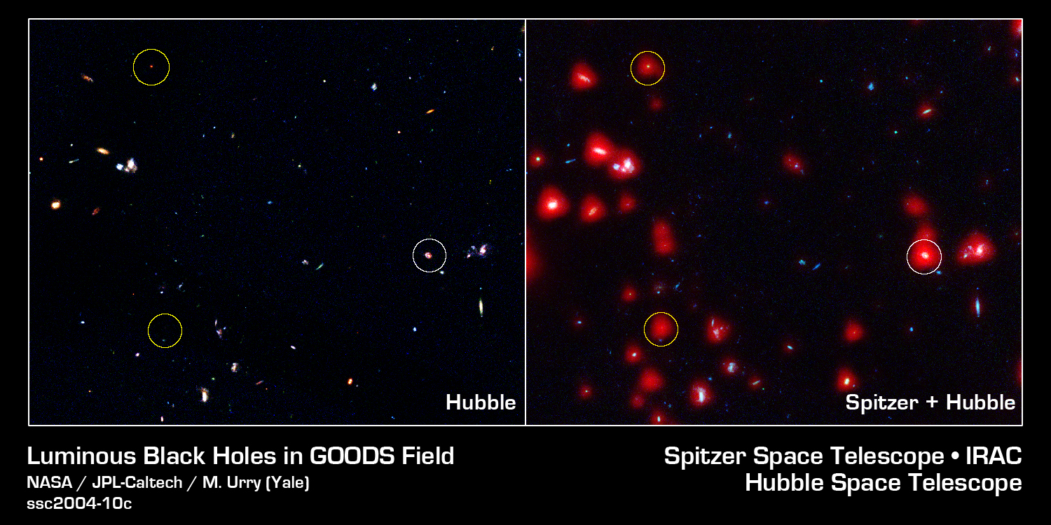 Astronomers have probed the deep sky with NASA's three Great Observatories for hidden black holes and come to the conclusion that most black holes cannot be seen in visible images. The image on the left from NASA's Hubble Space Telescope shows 1/200 of the full field of sky known as the Great Observatories Origins Deep Survey, or GOODS. It highlights three X-ray sources (circled) and many other galaxies. The image on the right is made up of data from Hubble and NASA's Spitzer Space Telescope and shows the same region. The two "hard" X-ray sources (sources detected only at the shortest X-ray wavelengths and indicated here with yellow circles) are very faint in the visible but much more luminous in the infrared. This data suggests that the X-ray sources are black holes hidden behind a screen of dust.